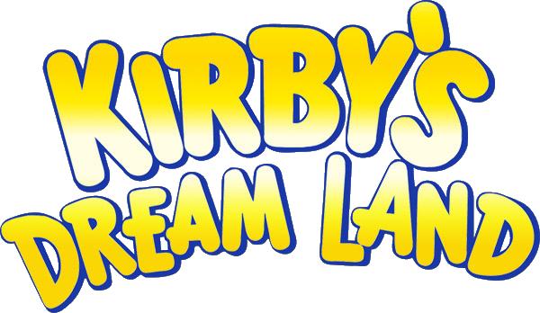 The logotype for Kirby's Dream Land (1992).